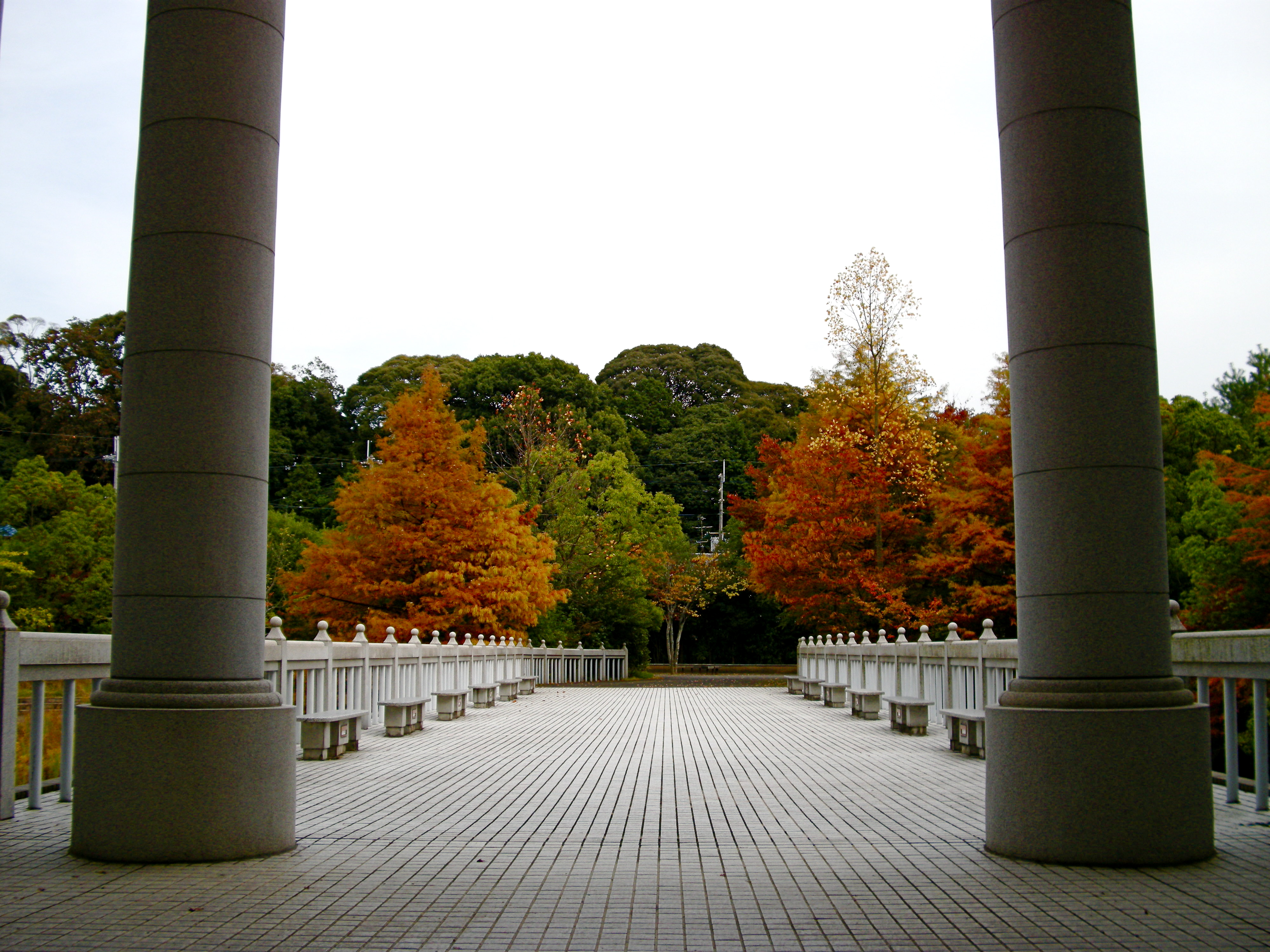 Entrance of Saionji Memorial Hall (Ritsumeikan University, Kyoto, Japan)